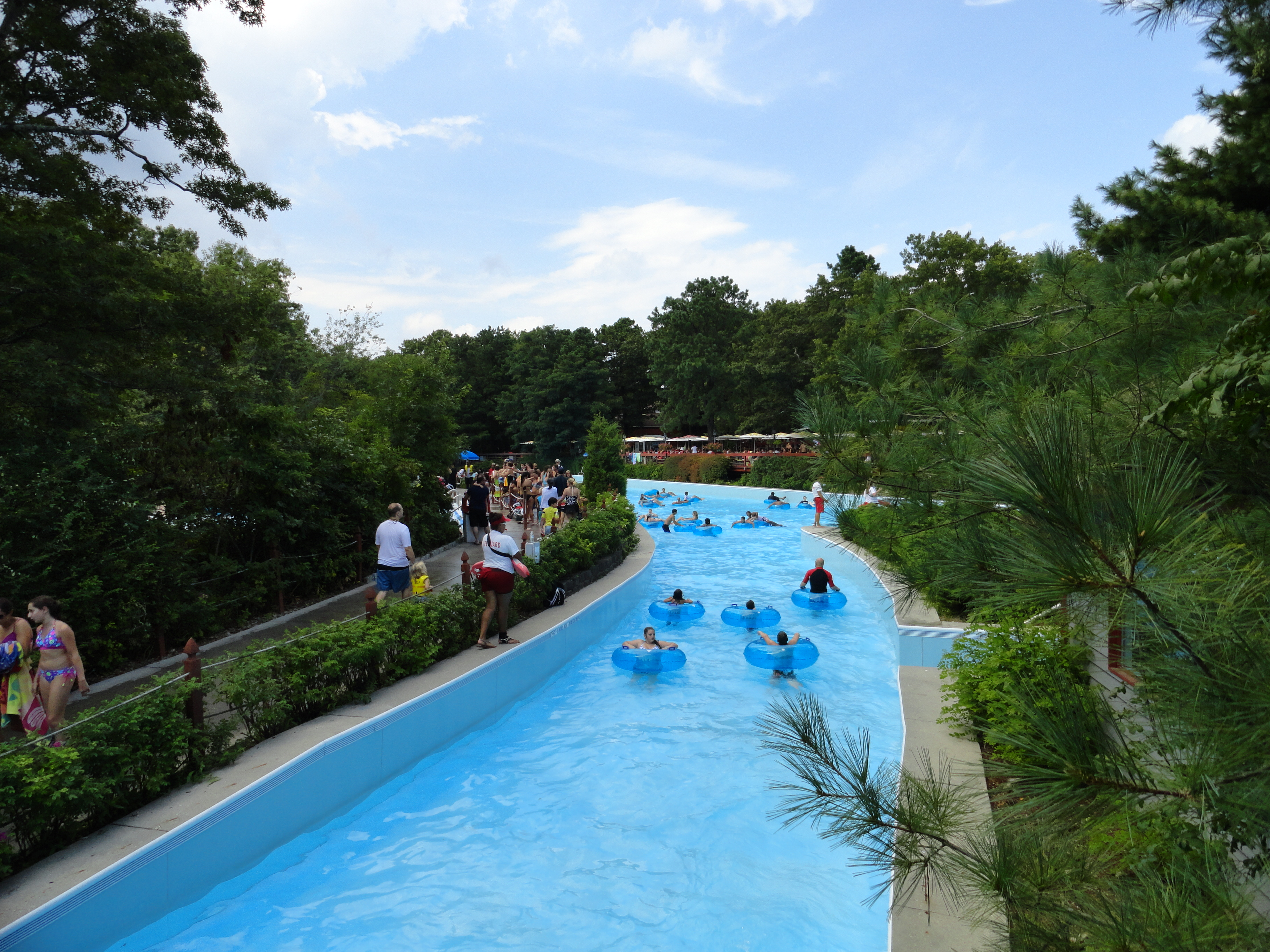 A view to the Lazy River